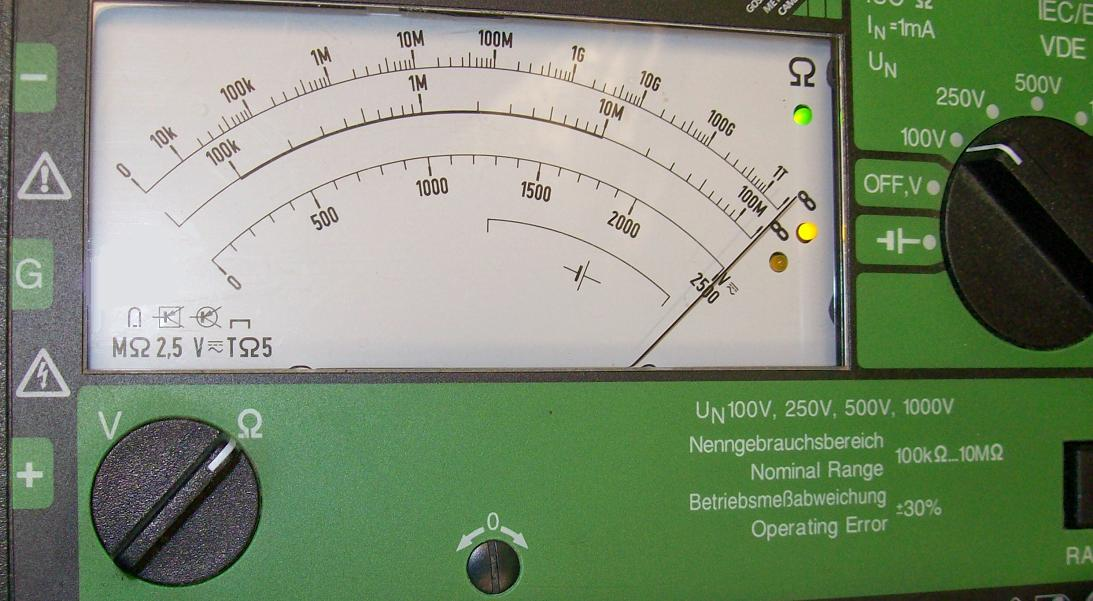 scala of an insulation meter